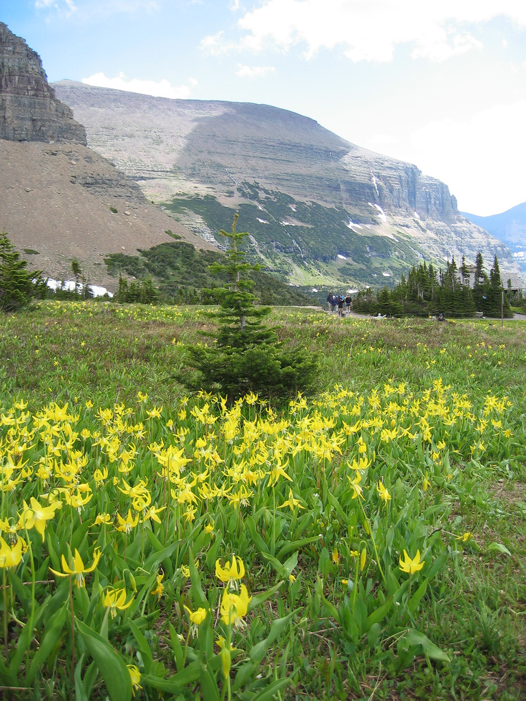 Erythronium grandiflorum, (Glacier Lily or Avalanche Lily) (Glacier National Park, Logan Pass)